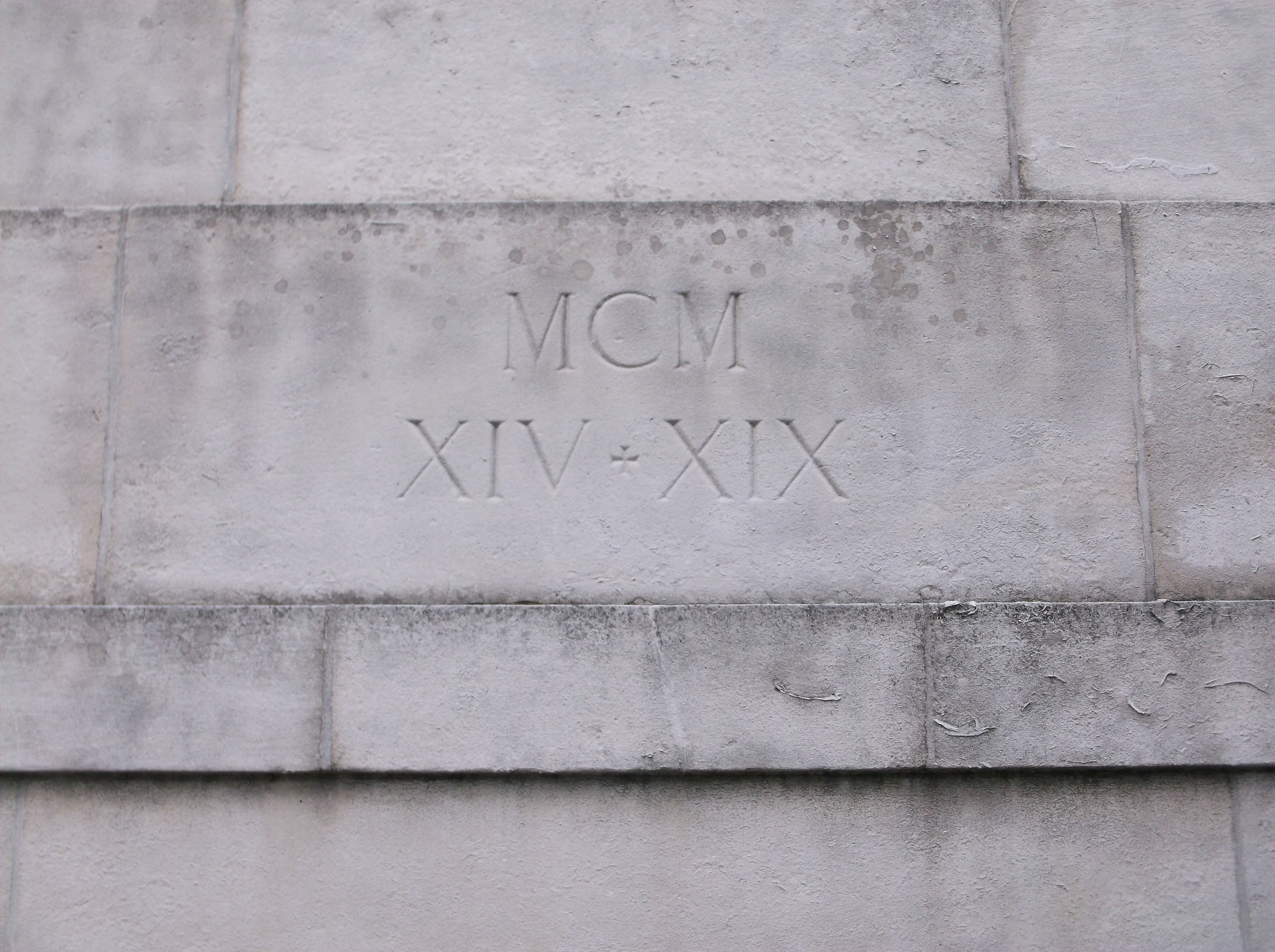 Midland Railway War Memorial. This impressive memorial, made from Portland Stone, stands on Midland Street in Derby, a short distance from Derby Midland station and is a grade II* listed building, but sadly seems to be mostly overlooked. The inscription reads "To the brave men of the Midland Railway who gave their lives in the Great War". Brass plaques either side of the cenotaph record the names of those men.